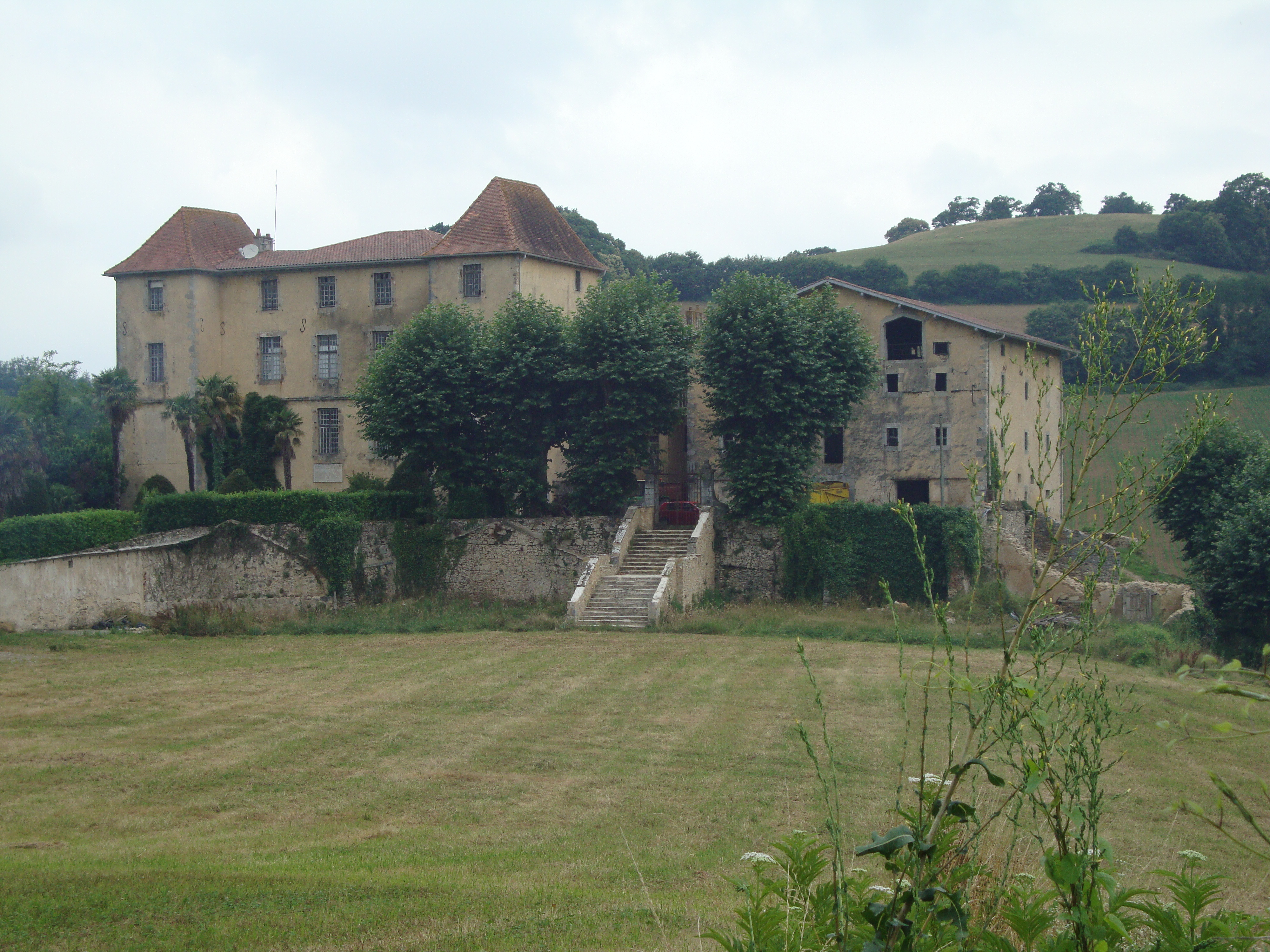 Mendionde (Pyr-Atl, Fr) Château de Garro.